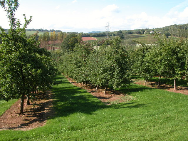 Apple orchards near Colebrook Wood. These apple orchards provide fruit to Bulmers in Hereford.